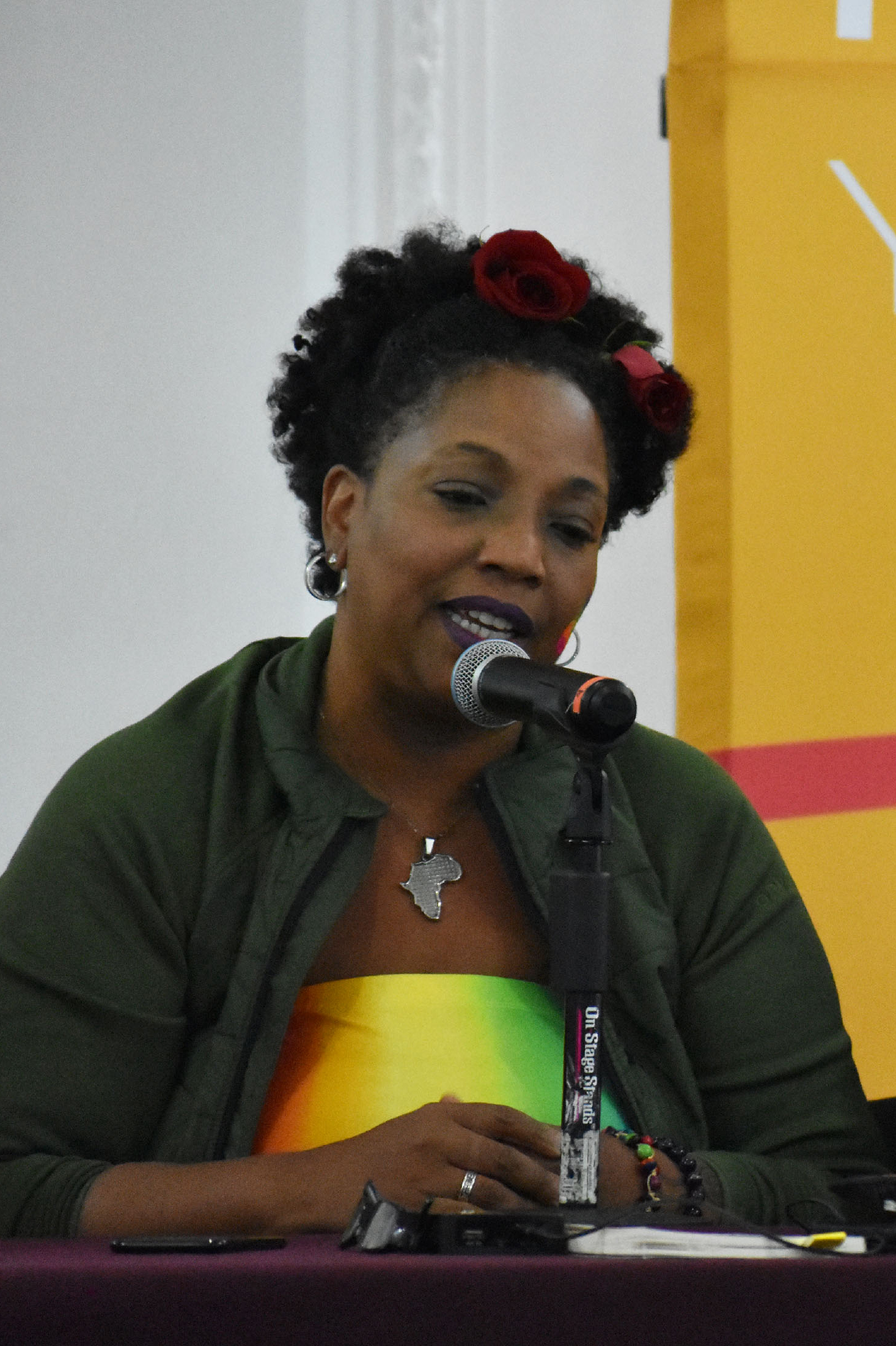 Yolanda Arroyo Pizarro at a conference in Mexico City. Saturday, June 29, 2019. Picture by Tiare Garcia / Secretaria de Cultura de la Ciudad de Mexico.